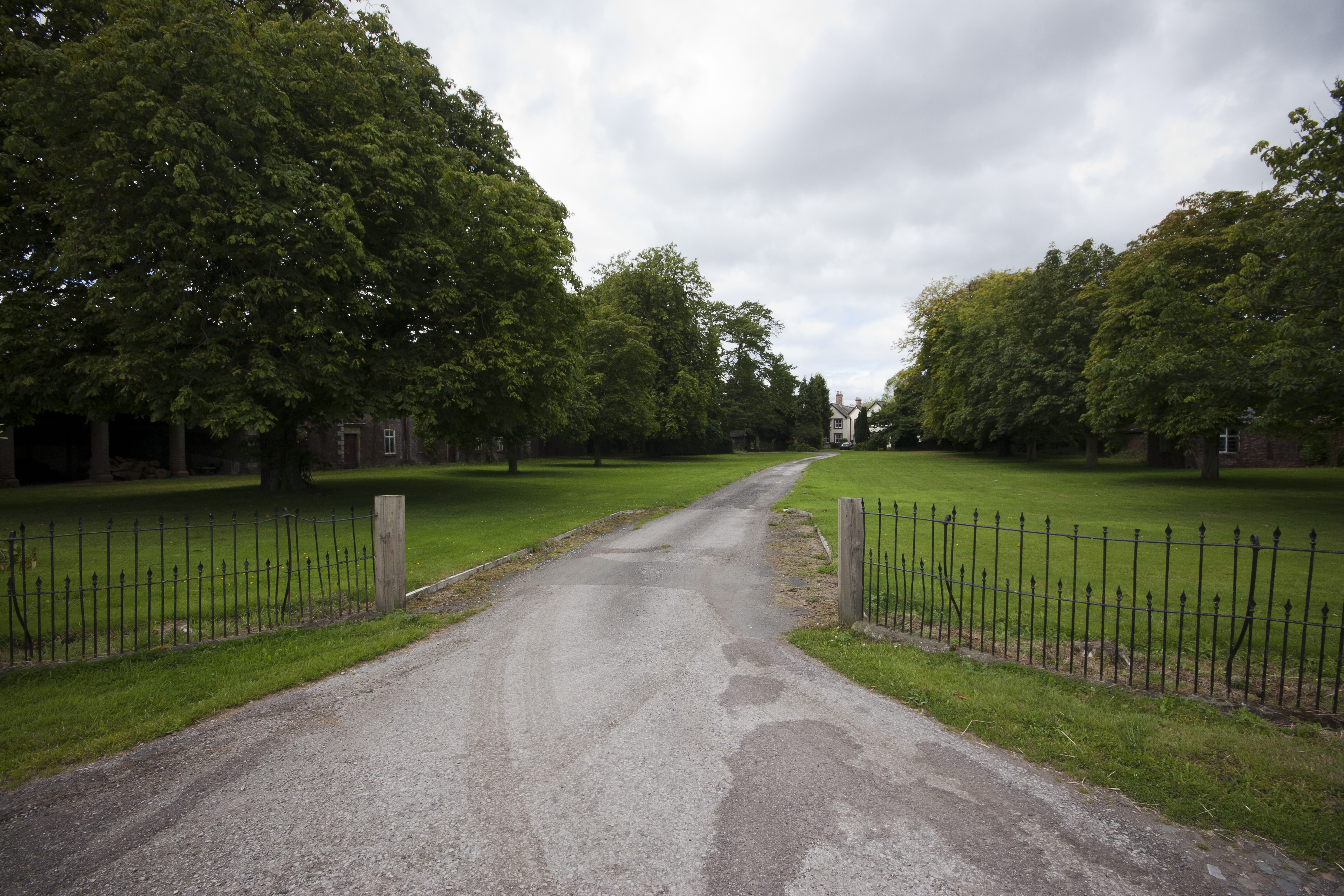 Ashley Hall in Cheshire, image taken while standing on the public right of way outside the gates to the property.